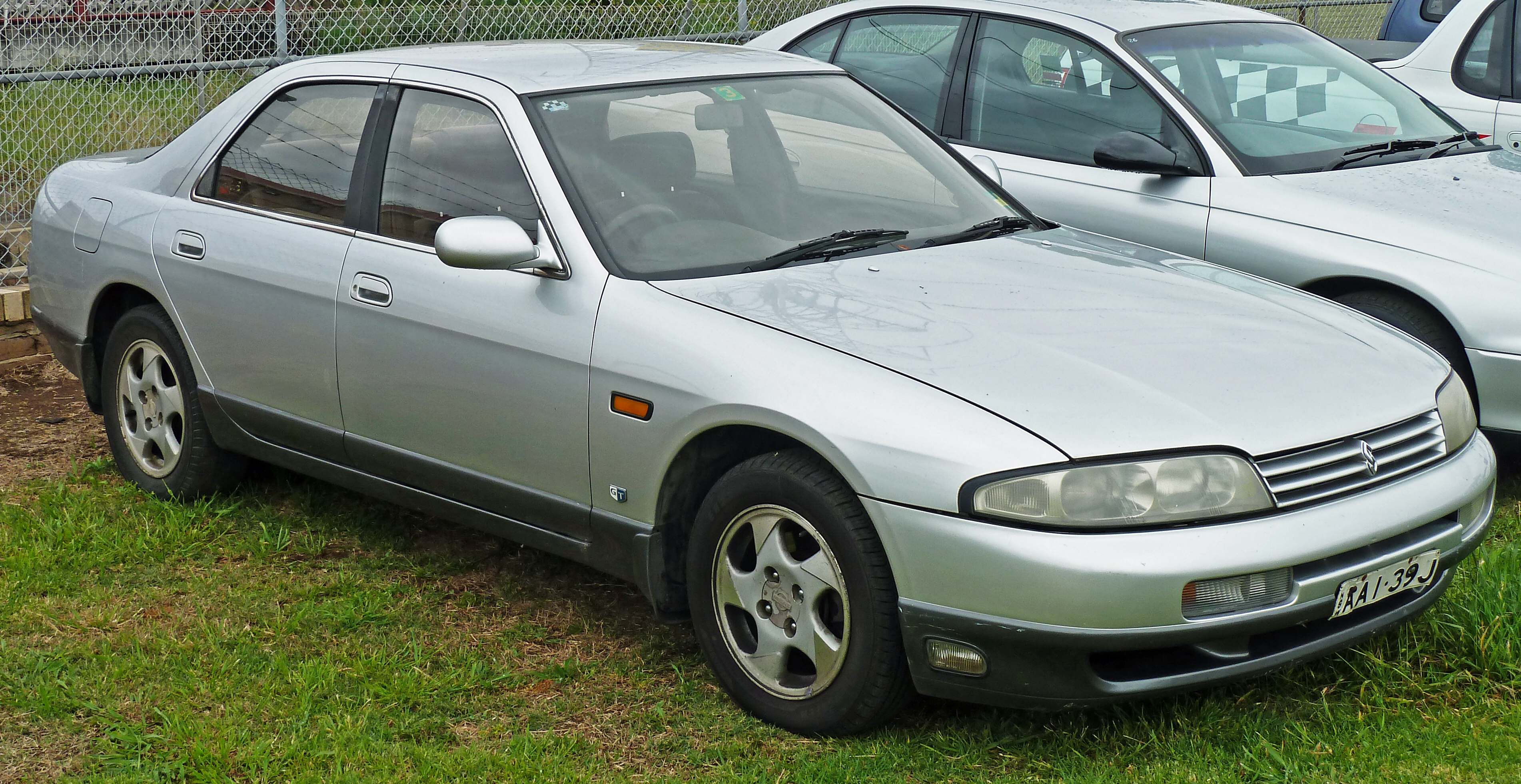 1993–1996 Nissan Skyline (R33) GTS25t sedan (Japanese grey import). Photographed in Chullora, New South Wales, Australia.